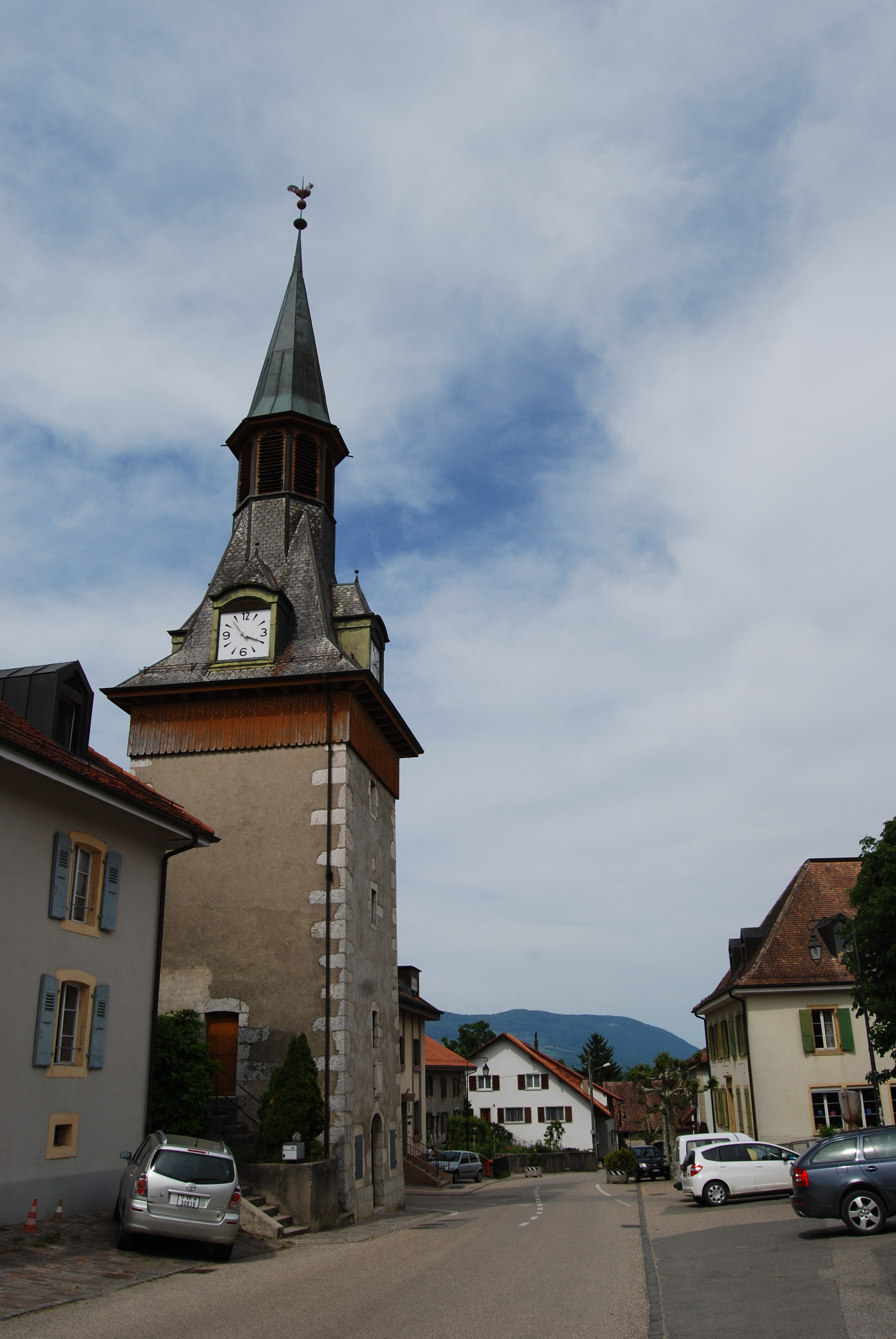 Champvent, canton of Vaud, SwitzerlandEsperanto: Champvent, Kantono Vaŭdo, Svislando